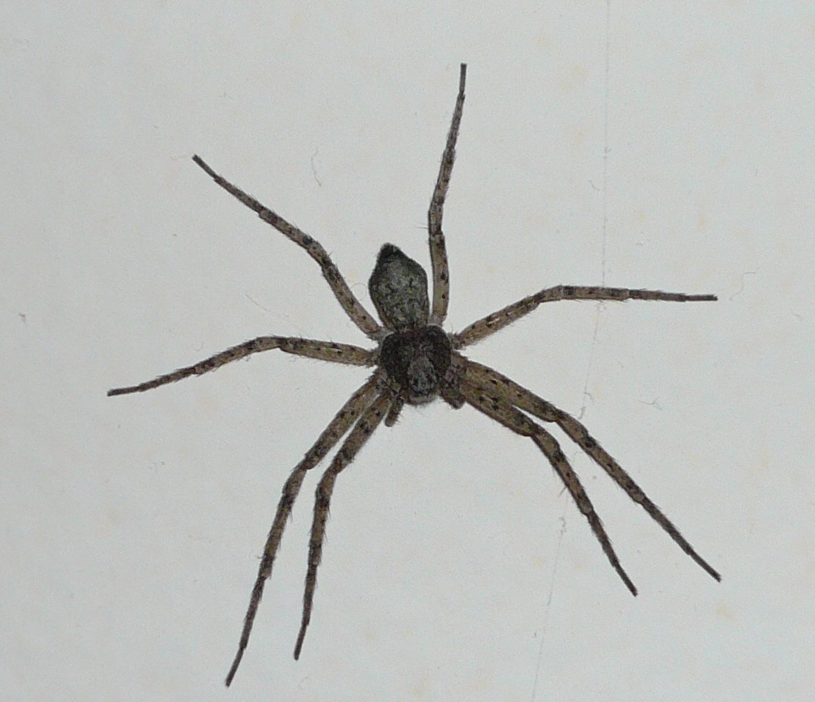 Running crab spider (family Philodromidae), possibly Tibellus species.